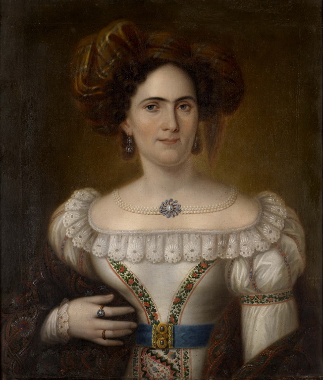 Portrait of woman, 1870